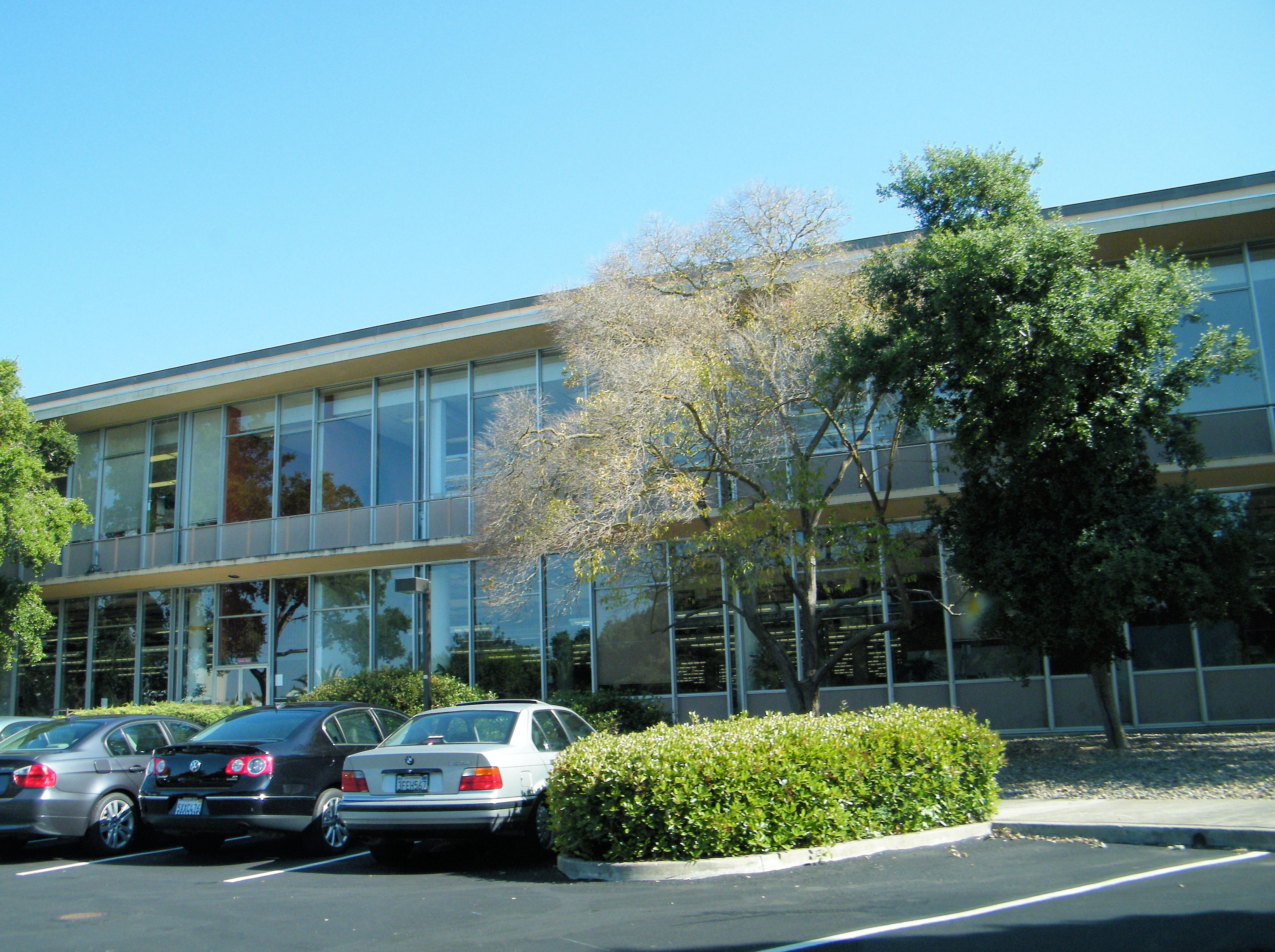 Another view of the office building at 1601 California Avenue, showing one side of the building with large windows which let in a lot of light. Facebook moved into this building on May 14, 2009.